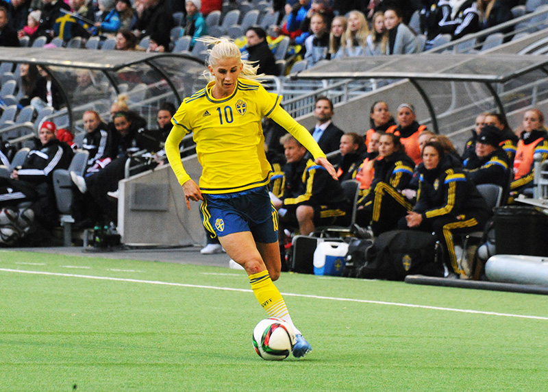 Swedish footballer Sofia Jakobsson